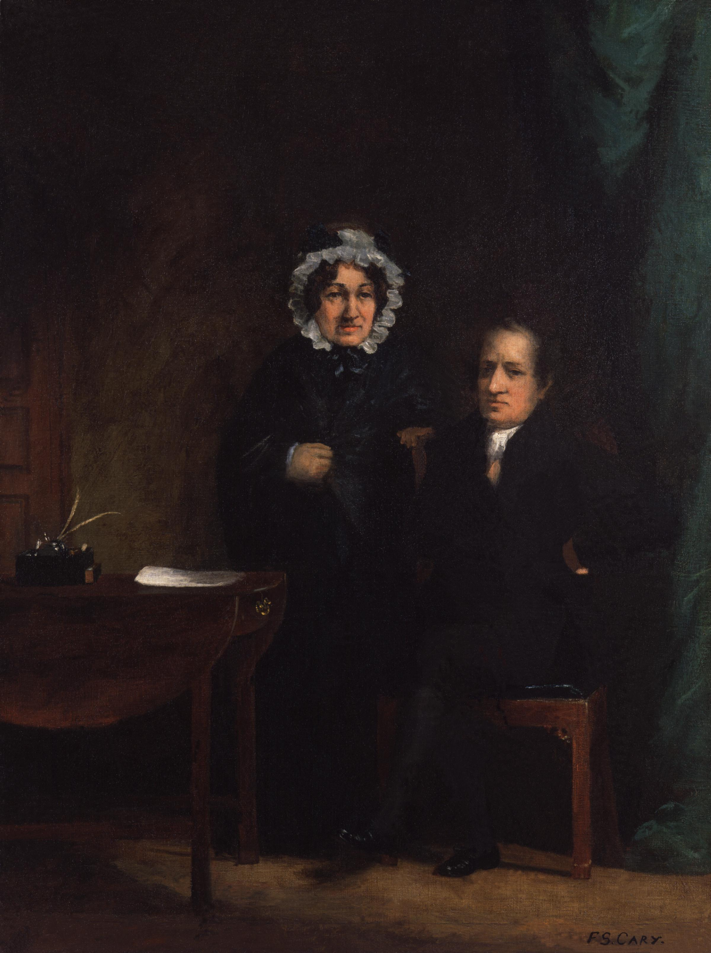 Mary Lamb; Charles Lamb, by Francis Stephen Cary (died 1880), given to the National Portrait Gallery, London in 1895. All images in this batch have been confirmed as author died before 1939 according to the official death date listed by the NPG.